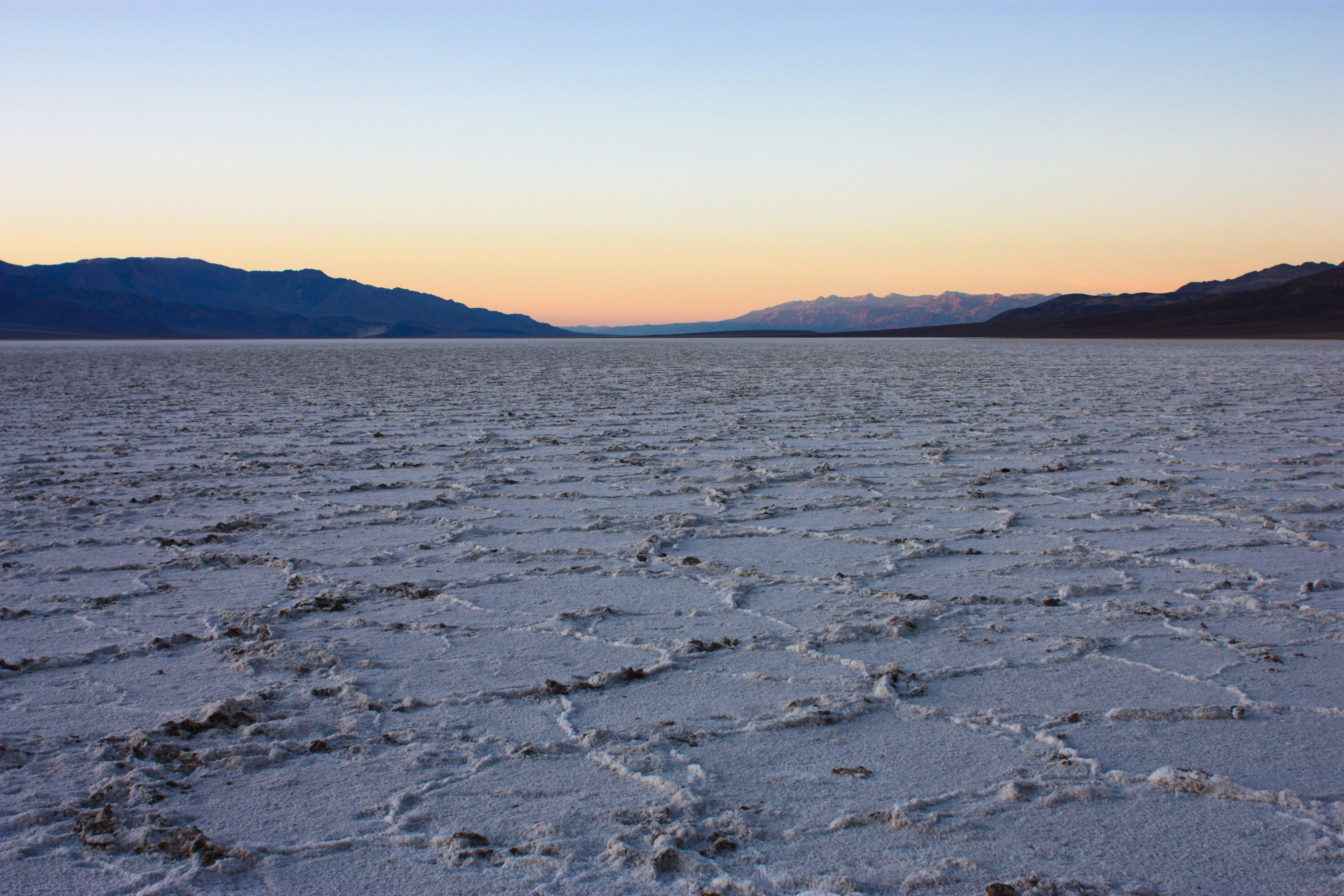 The salt flats at Badwater defend Lake Manly's legacy. As the ancient lake evaporated, the minerals in the water remained, creating the massive salt pan seen stretching to the horizon. Occasionally dampened by rainfall (~1.9 inches/year), the hexagonal patterns on the surface are formed when the moisture evaporates, and the salt crystals expand during the drying process. At 282 feet below sea level, Badwater Basin is the lowest point in North America.